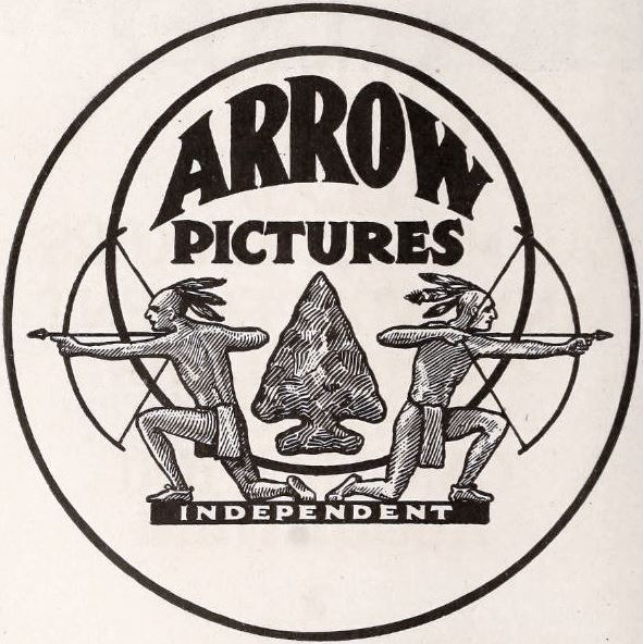 Logo of the Arrow Film Company, from a full page advertisement on page 12 of the December 30, 1922 Exhibitors Trade Review.